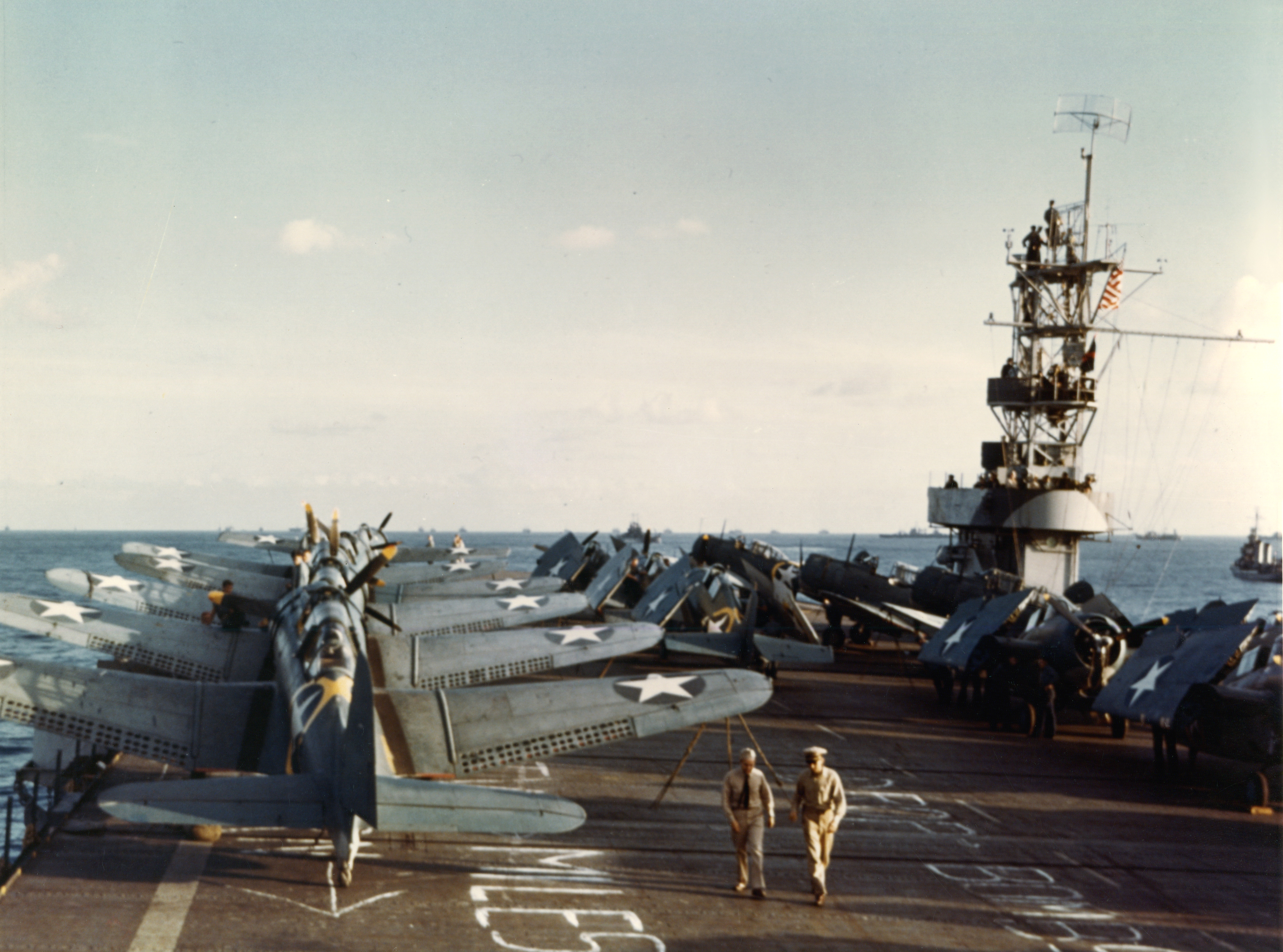 Eight U.S. Navy Douglas SBD-3 Dauntless dive bombers and six Grumman F4F-4 Wildcat fighters on the flight deck of the escort carrier USS Santee (ACV-29) during Operation Torch, the November 1942 invasion of North Africa. Note the yellow Operation Torch markings visible around the fuselage stars of some of these airplanes. Also note the distance and target information temporarily marked on the carrier's flight deck.Some published sources state that this photo was taken on USS Sangamon (ACV-26). However, the camouflage pattern on her island definitely identifies the ship as Santee.